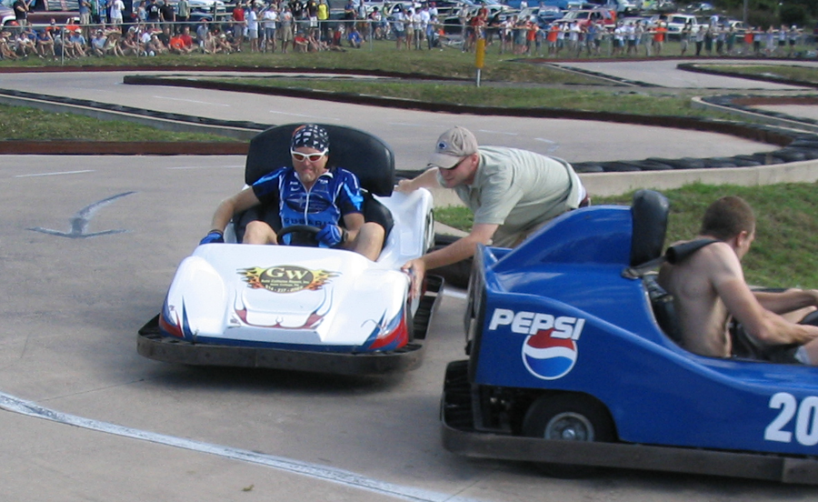 Gary Fisher spun out in the 2005 SSWC Go Kart race. The rider that is passing him is Travis Brown.